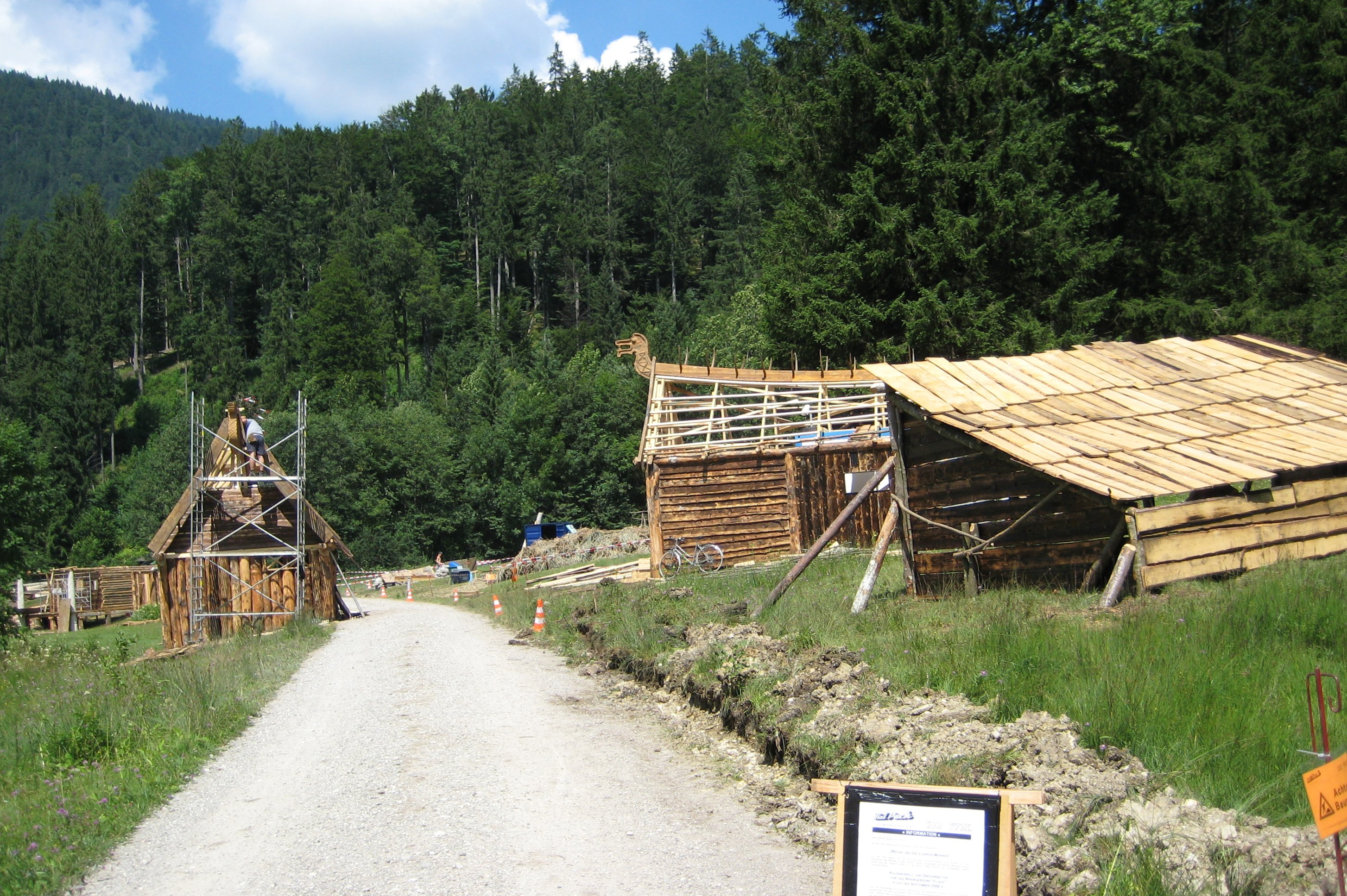 Preparations for the shooting of the real film "Wickie und die starken Männer"